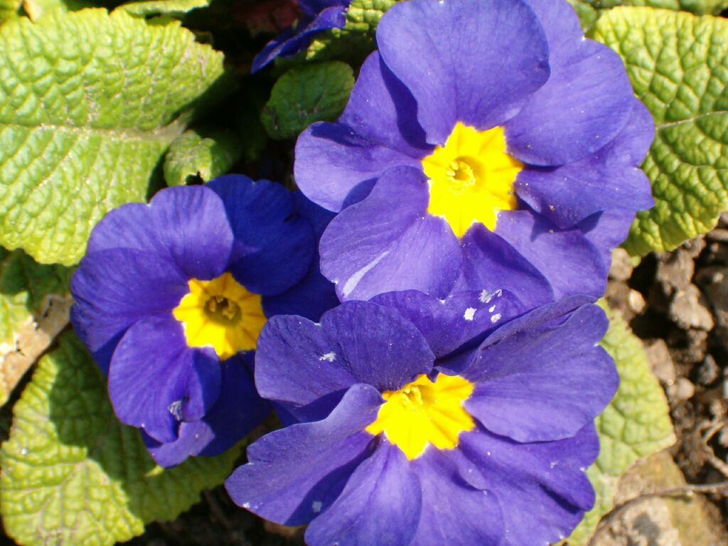 Primula, my photo GNU FDL Delwedd:Briallen.jpg Afbeelding:Primula.jpg